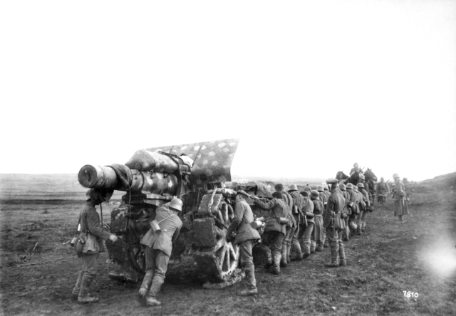 AWM caption : "HAM, FRANCE, 1918-03. A GERMAN 21CM HEAVY HOWITZER BEING BROUGHT INTO POSITION IN THE BATTLE AREA." Comment : The gun is a 21 cm Mörser 16.